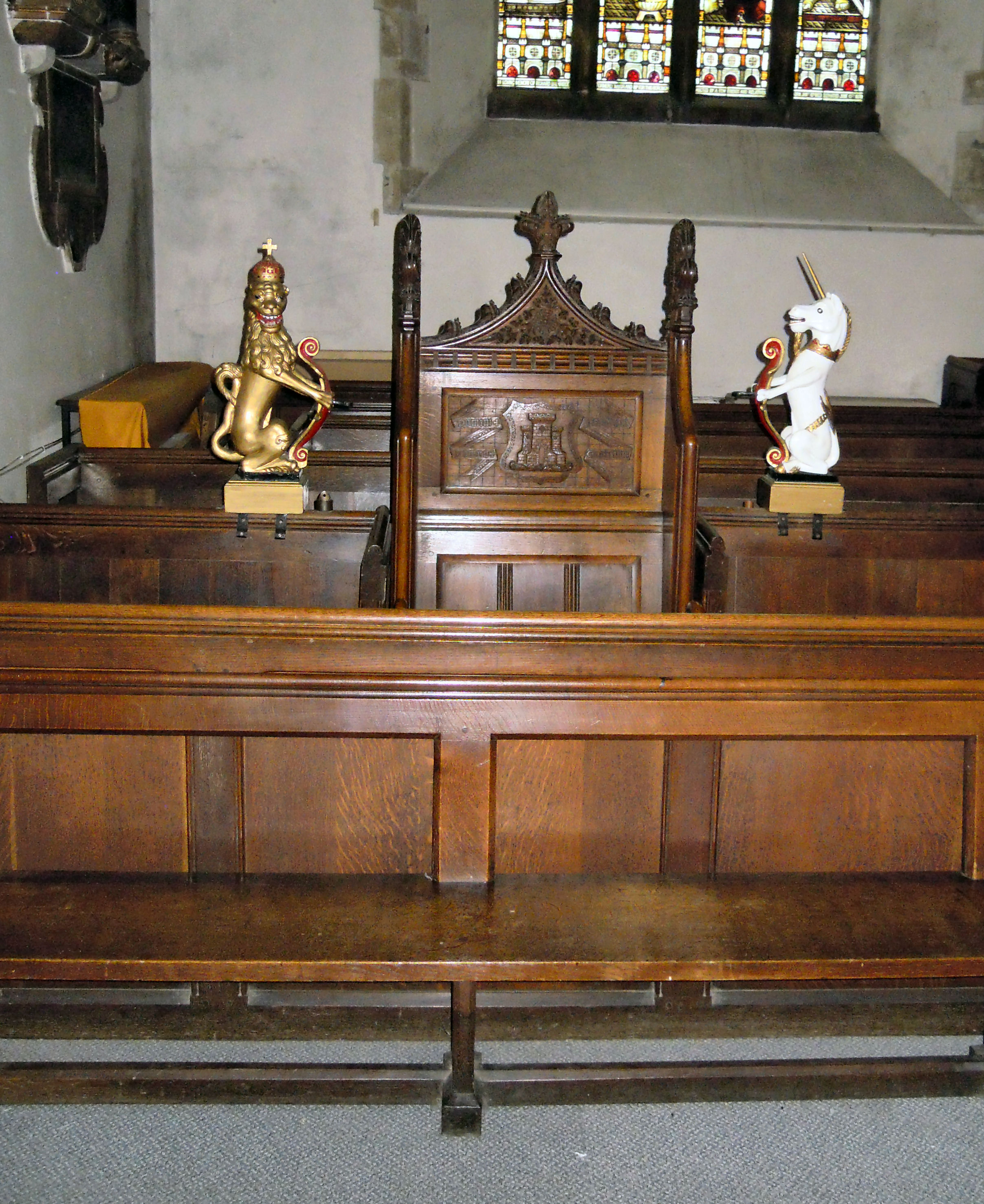 The Mayor's Pew in SS Peter and Mary Magdalene parish church, Barnstaple, Devon showing its heraldic beasts